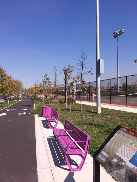 view of the park from Garfield Avenue